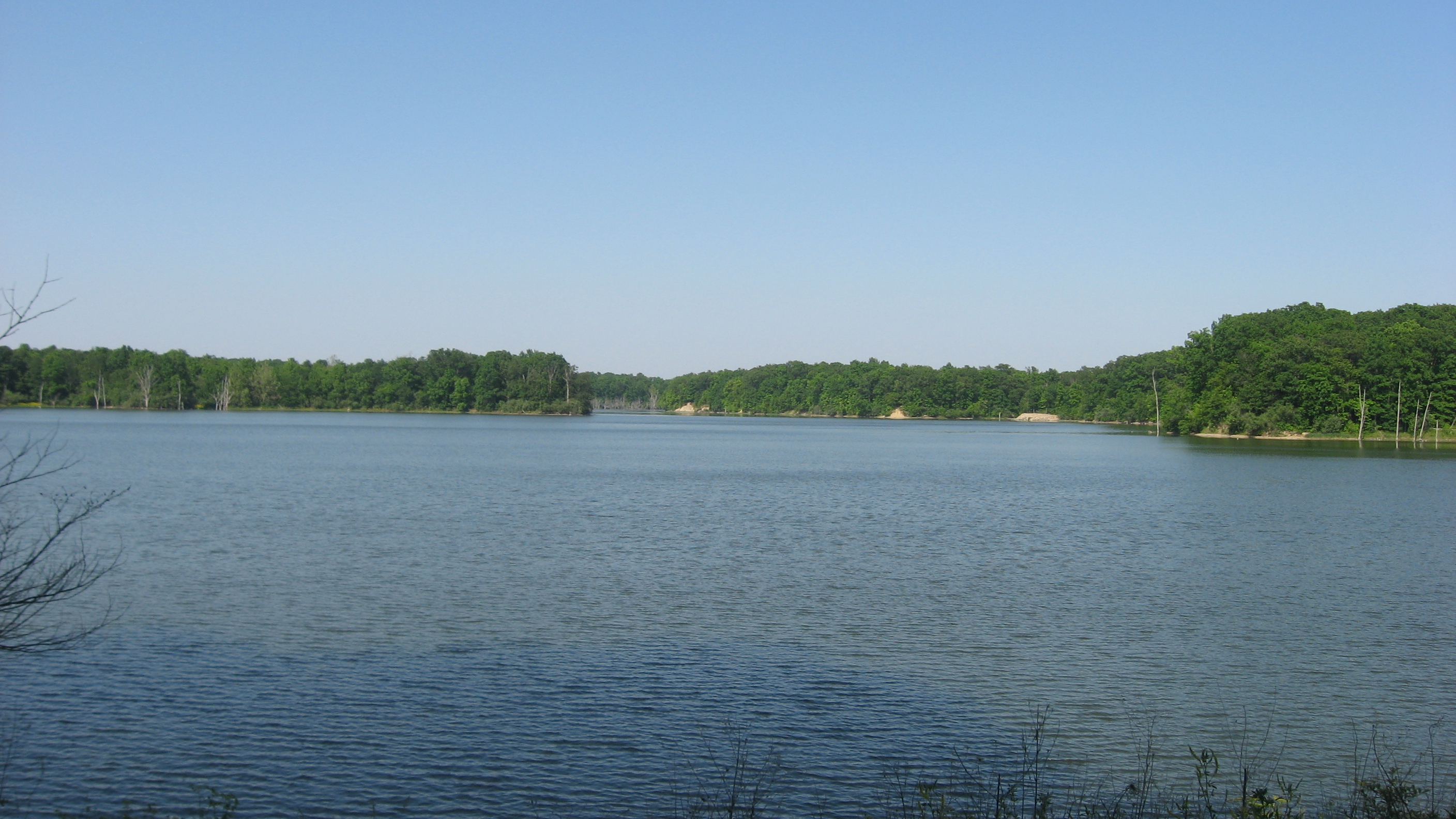 Overview of the lake at Kennekuk County Park (seen from a trail atop the dam), located northwest of Danville in Blount Township, Vermilion County, Illinois, United States.